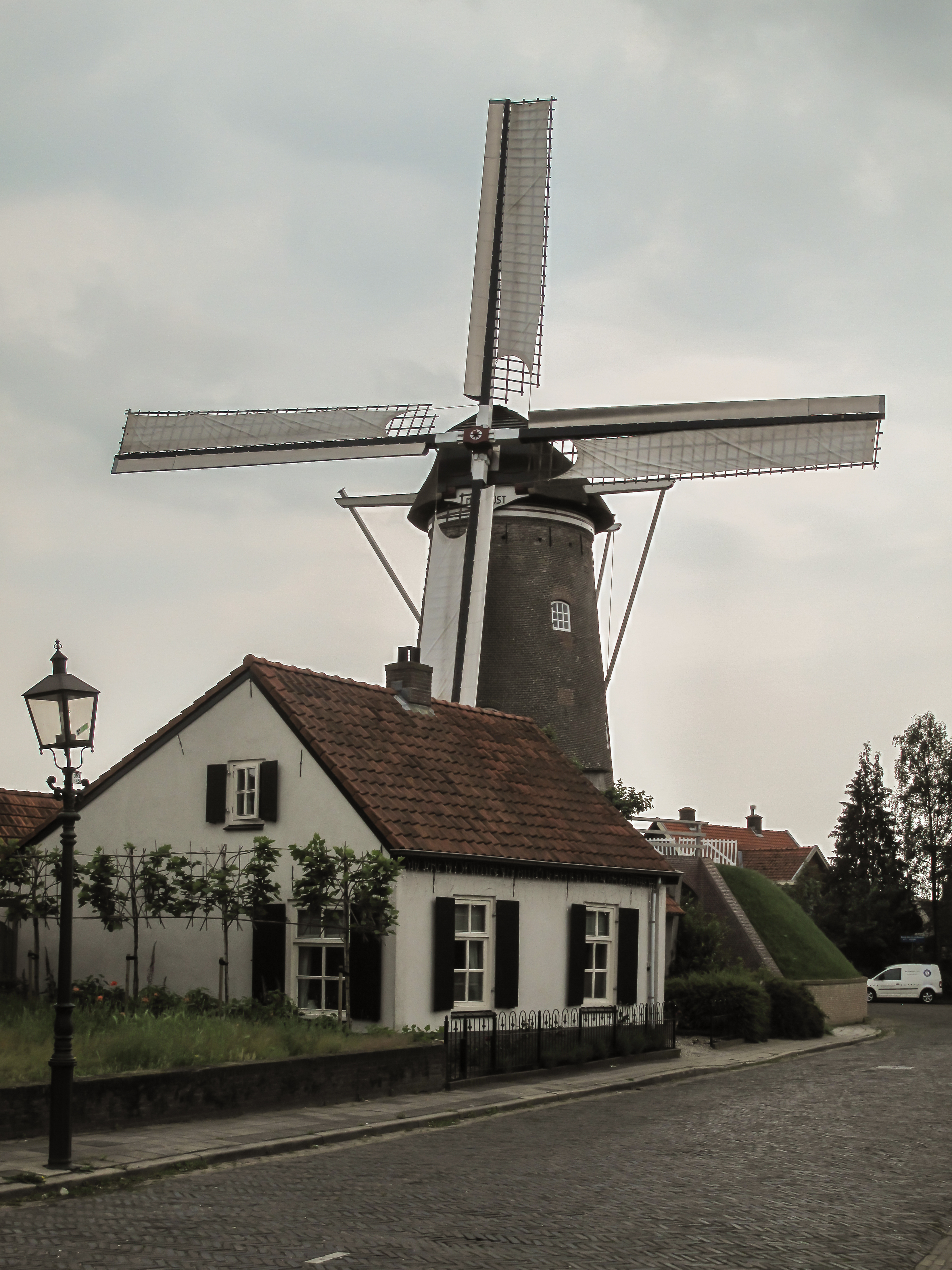 Amerongen, windmill: molen Maallust